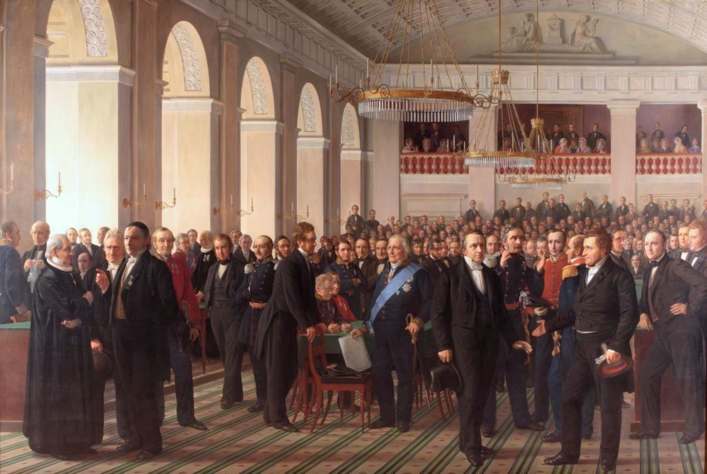 The fathers of the Danish constitution assembled in Copenhagen on October 23, 1848